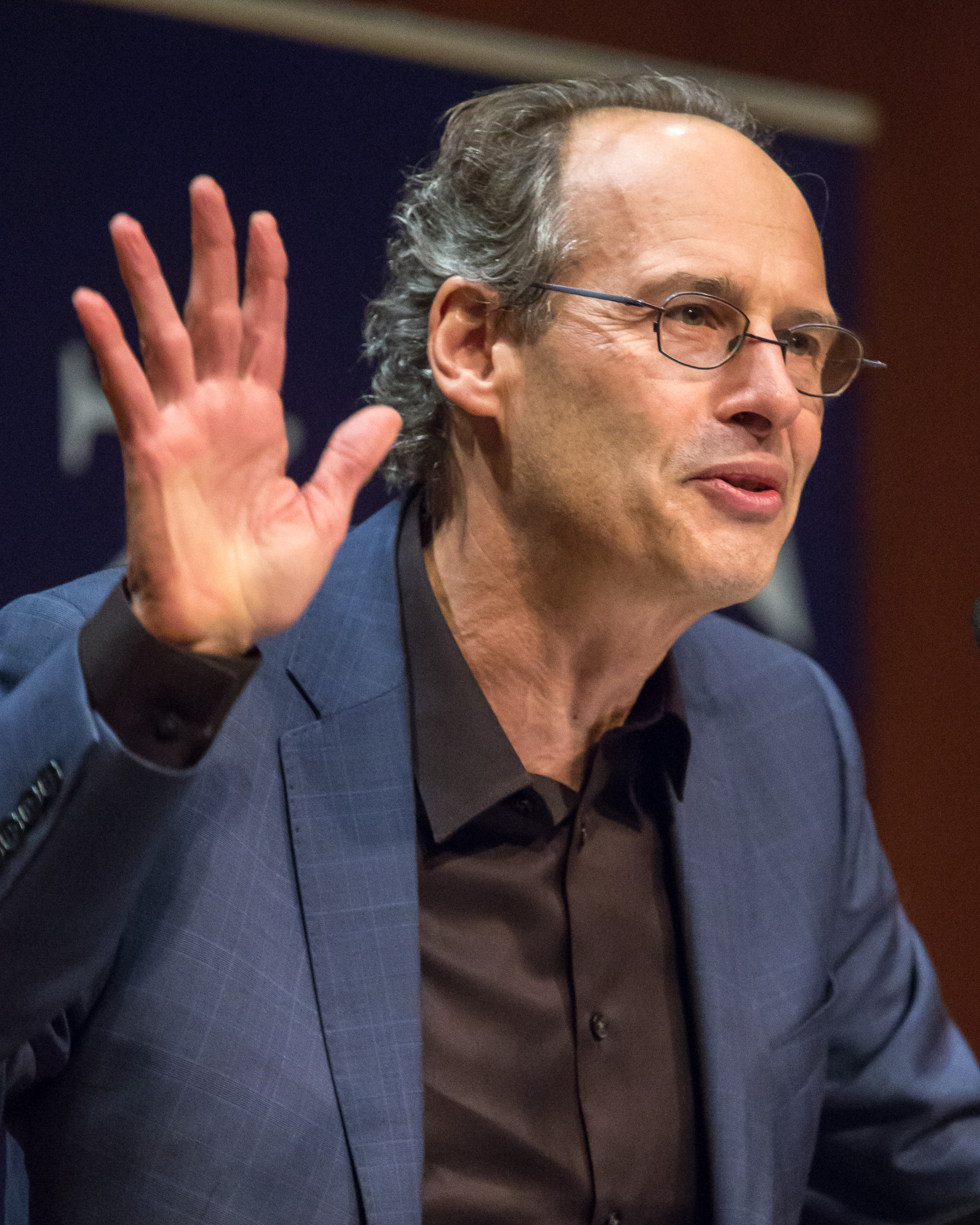 James A. Morone, Professor of Political Science and Public Policy at Brown University.